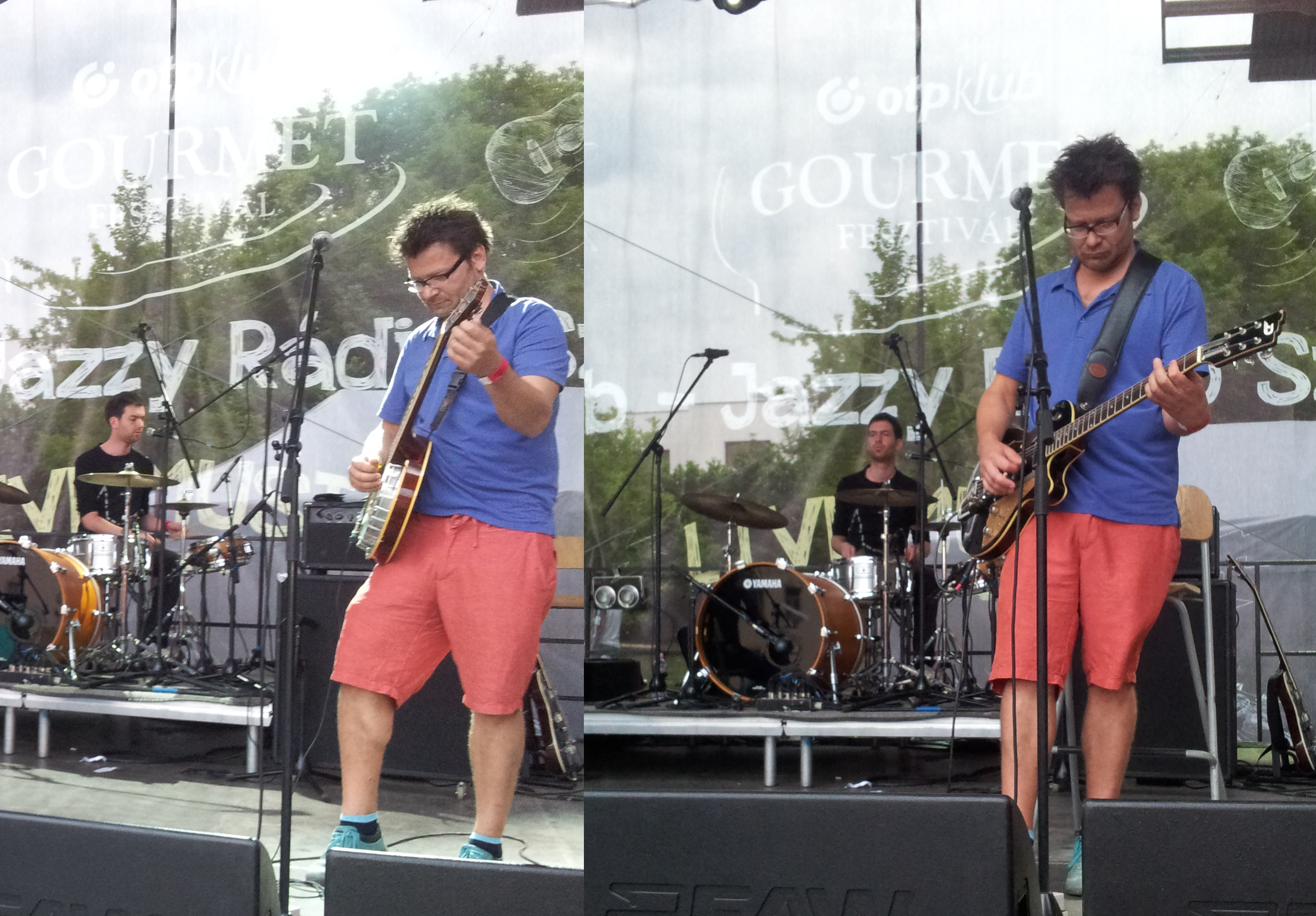 András Lovasi at the Gourmet Festival in Budapest, 9 June 2012 with Kiscsillag band. In the background of the band's drummer, Abel Mihalik.